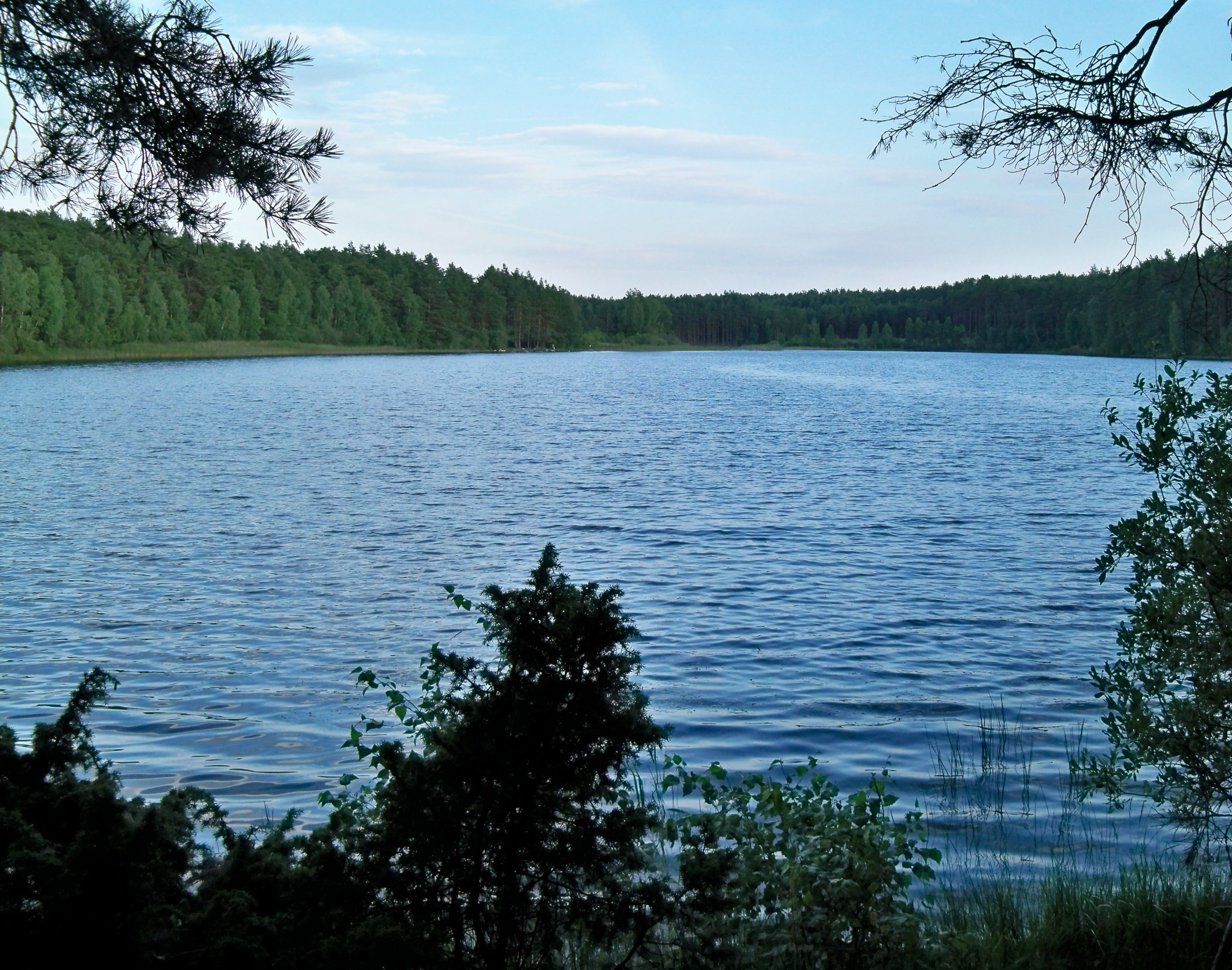 Chądzie Lake, Poland